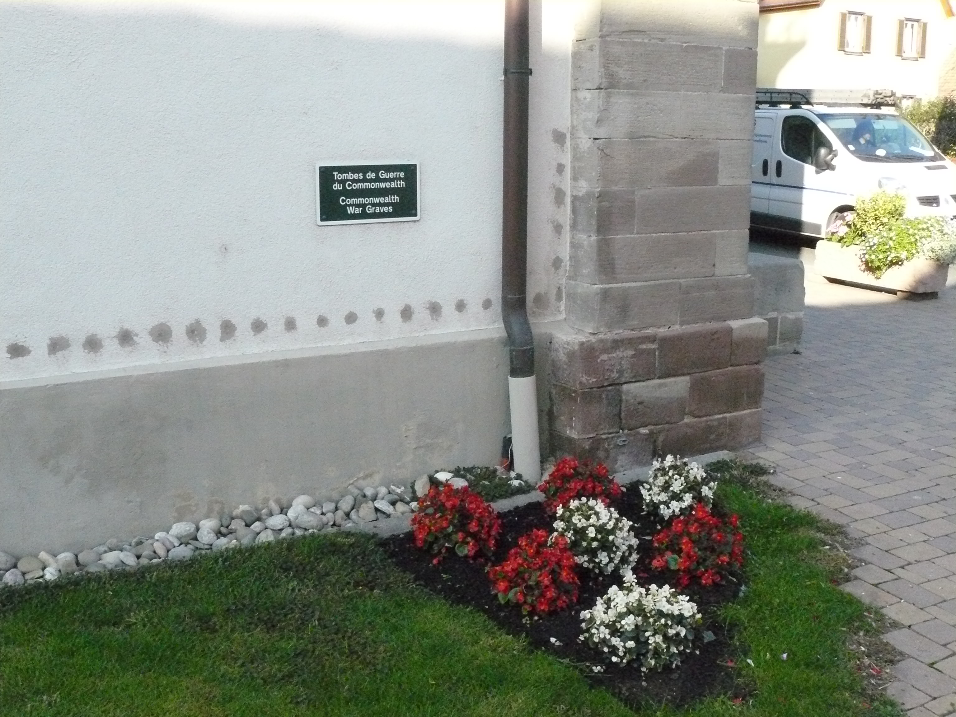 Commonwealth War Graves